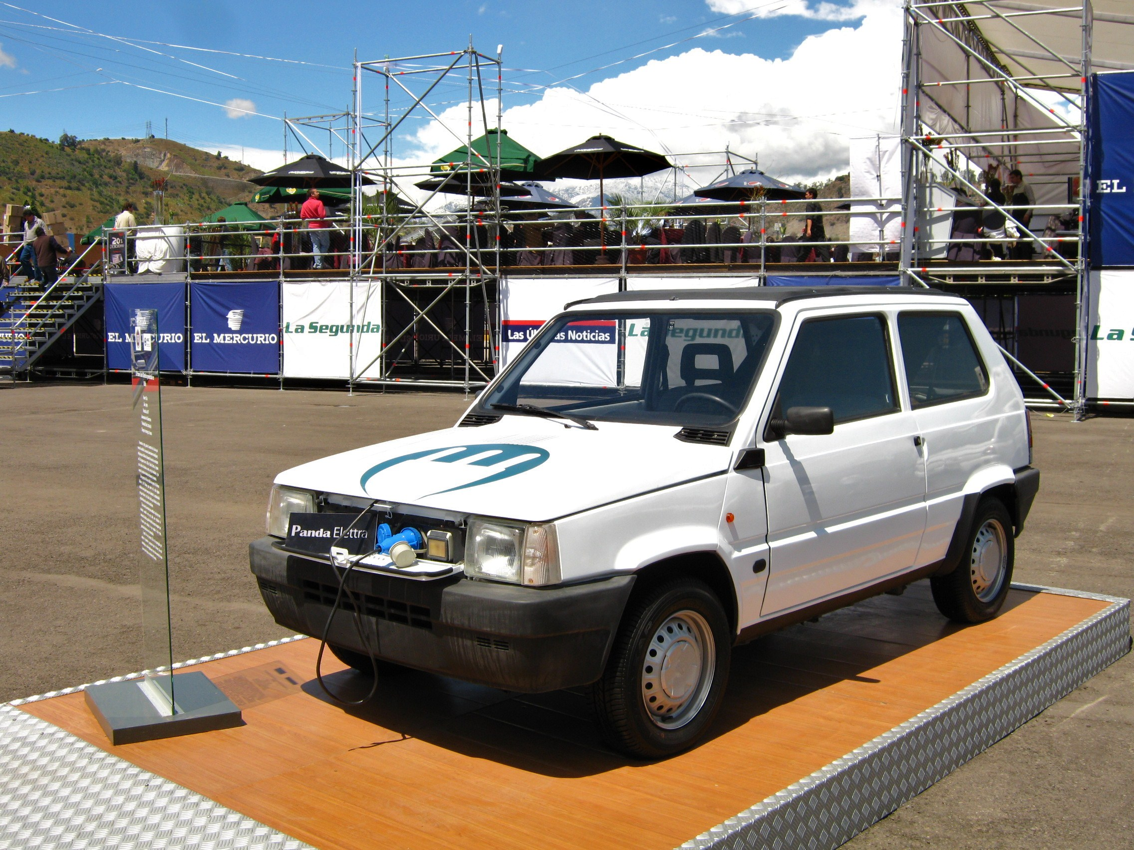 Fiat Panda Elettra 1990 on display at 2010 Santiago Motorshow. According to the signpost, the first electric car presented in Chile, in 1994.